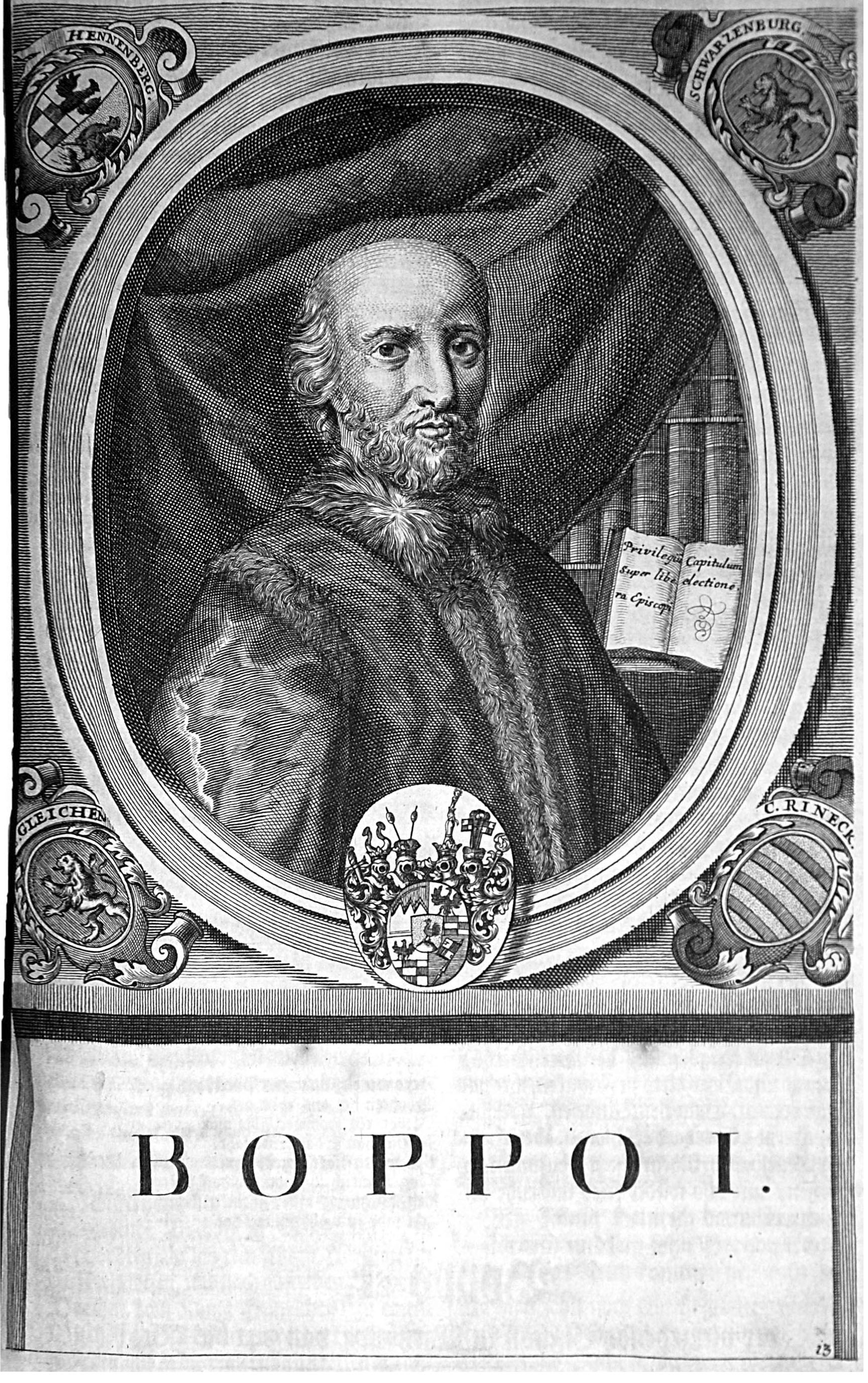 Poppo I. († 14./15. Februar 961) Imperial Chancler 931 to 940 and 941-961 Bishop of Würzburg.